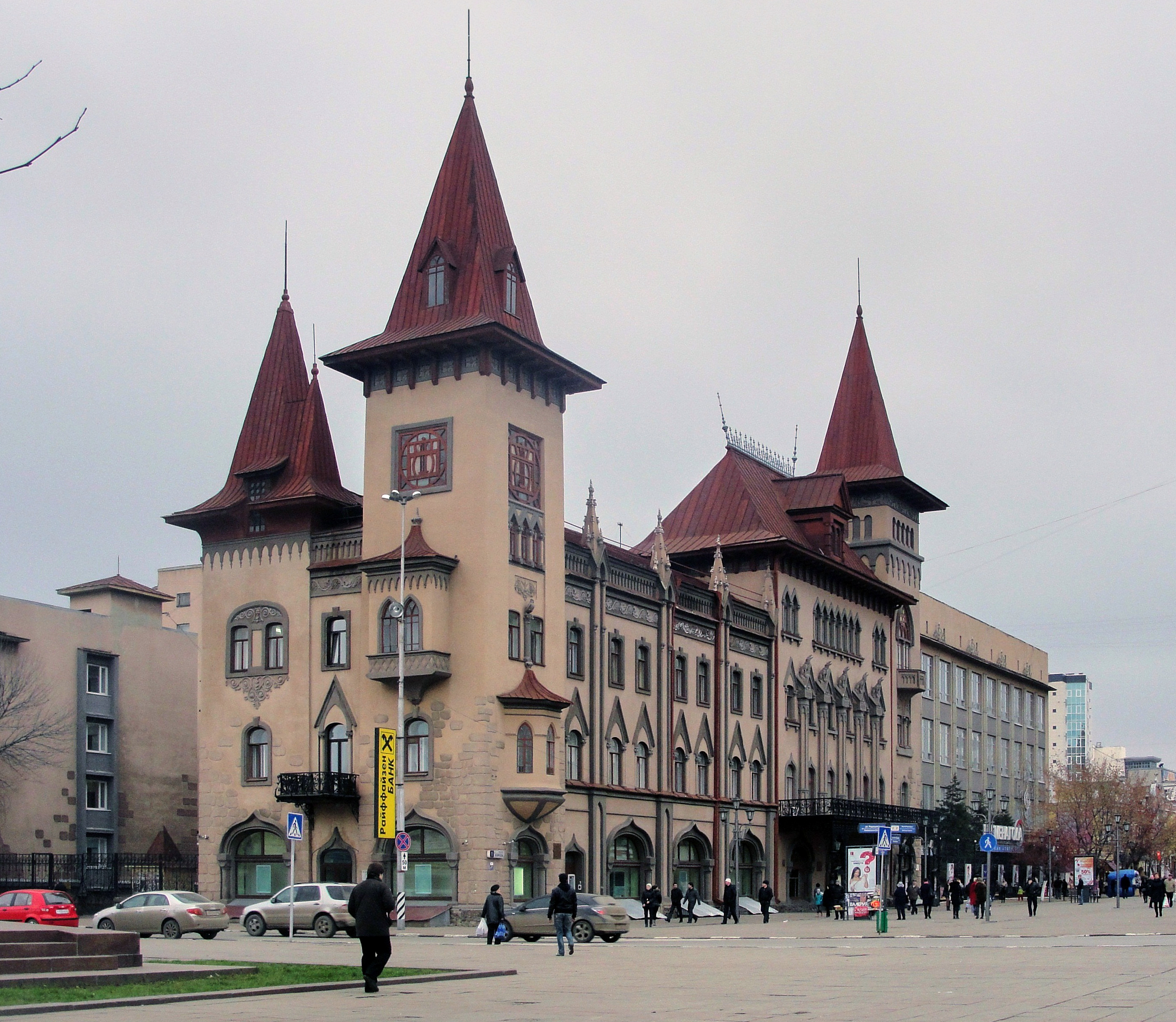 Saratov State Conservatory named L. V. Sobinov